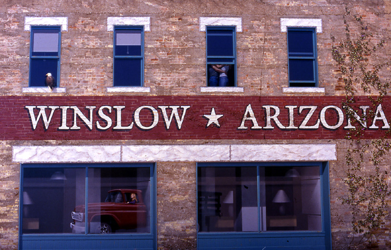 Trompe-l'oeil mural dedicated to that famous song by The Eagles, Take it Easy. Mural is located in Standin' on the Corner Park in Winslow, AZ, painted by American mural artist John Pugh in 1998.